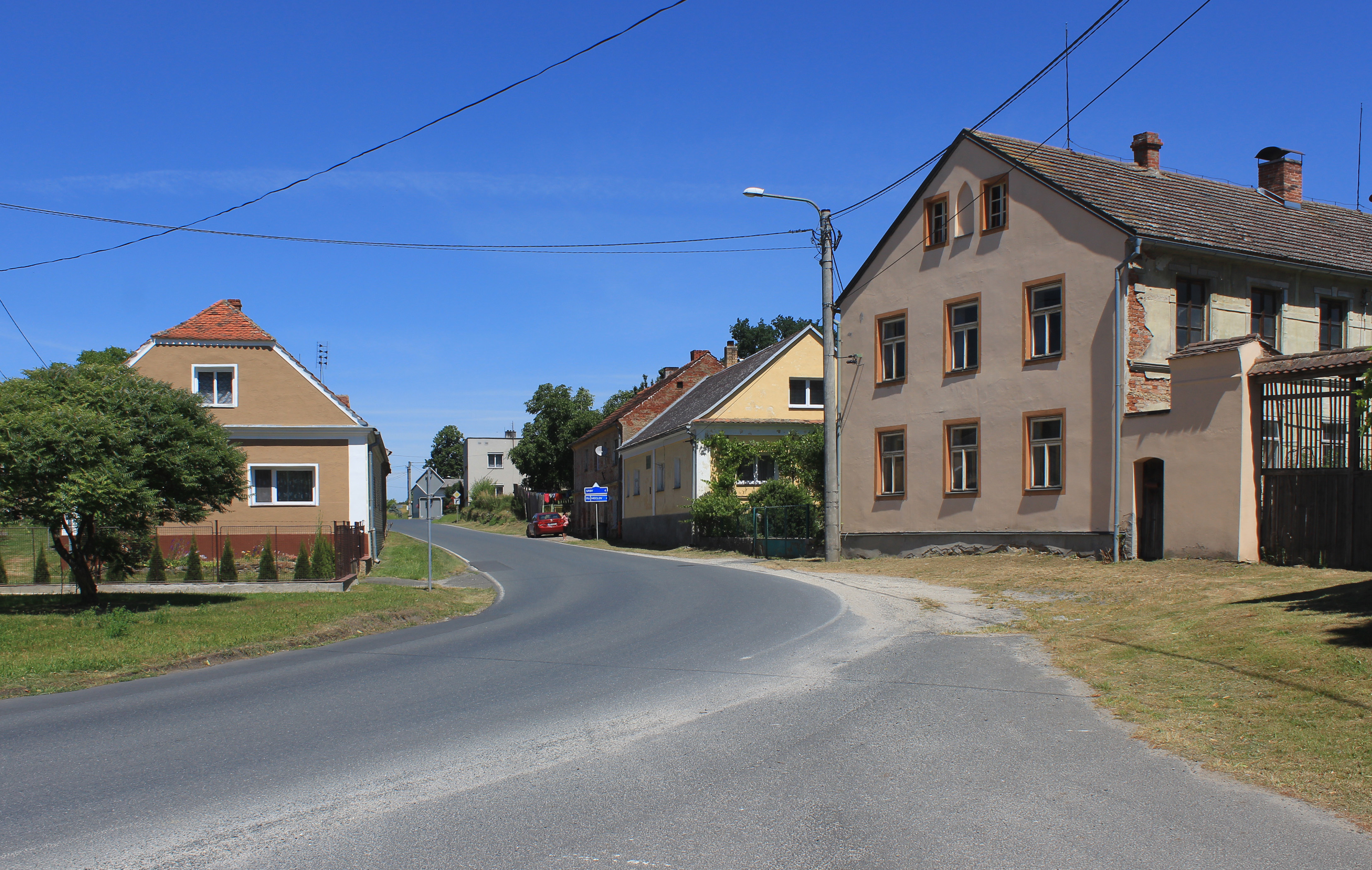 Intersection in Zámělíč, part of Poběžovice, Czech Republic.